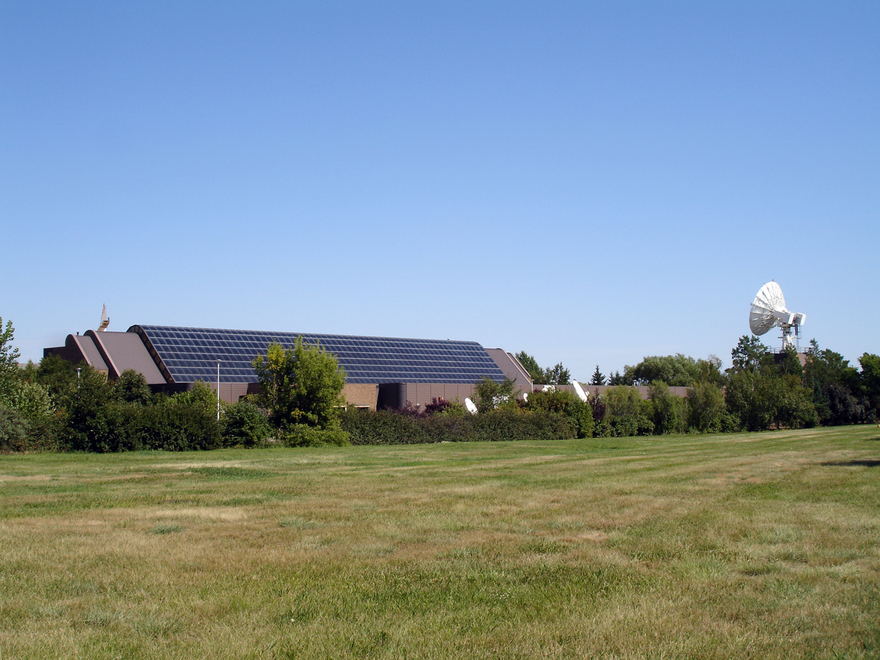 SED Systems headquarters in Saskatoon, Saskatchewan, Canada. Space Engineering Division SED is a division of Calian Ltd., a subsidiary of Calian Technologies Ltd.